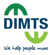 Delhi Integrated Multi-Modal Transit System (DIMTS) Limited is an Urban Transport and Infrastructure Development Company committed to delivery of quality services. It is a joint venture company with equal equity of the Government of National Capital Territory of Delhi (GNCTD) and the IDFC Foundation (a not-for-profit initiative of Infrastructure Development Finance Company Limited).